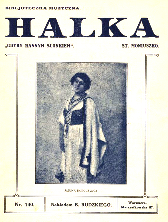 First print of music from aria by Halka entitled "Gdyby rannym slonkiem" (If at the morning sun) with illustration of soprano Janina Korolewicz (circa 1895). The cover of the Biblioteczka Muzyczna edition of Stanisław Moniuszko.